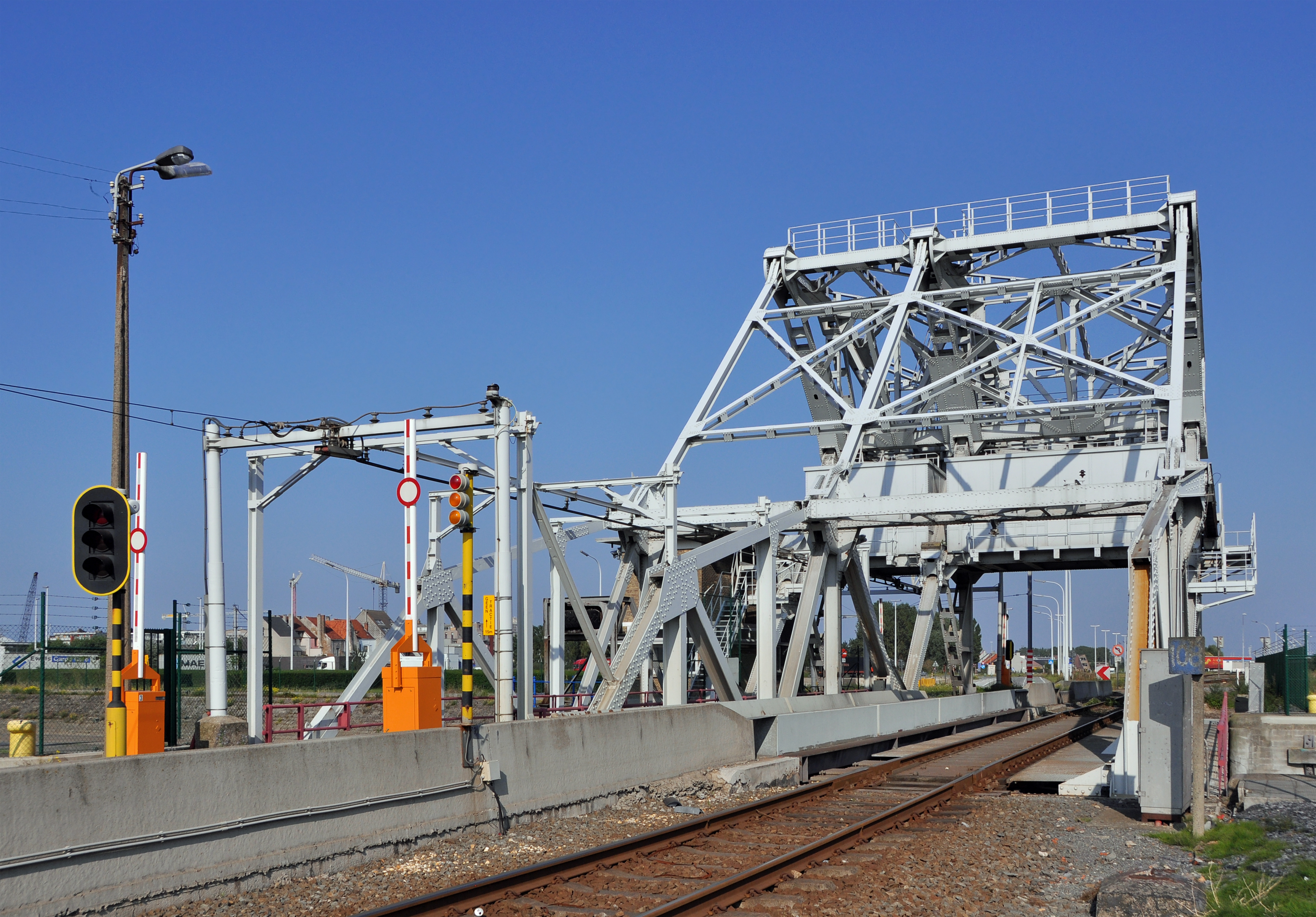 Zeebrugge (Bruges, Belgium): the Strauss bridge at the Visart lock, with railway line 202